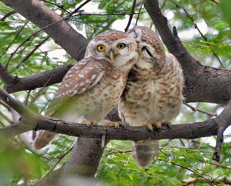 Spotted Owlet Athene brama at Keoladeo National Park, Bharatpur, Rajasthan, India.